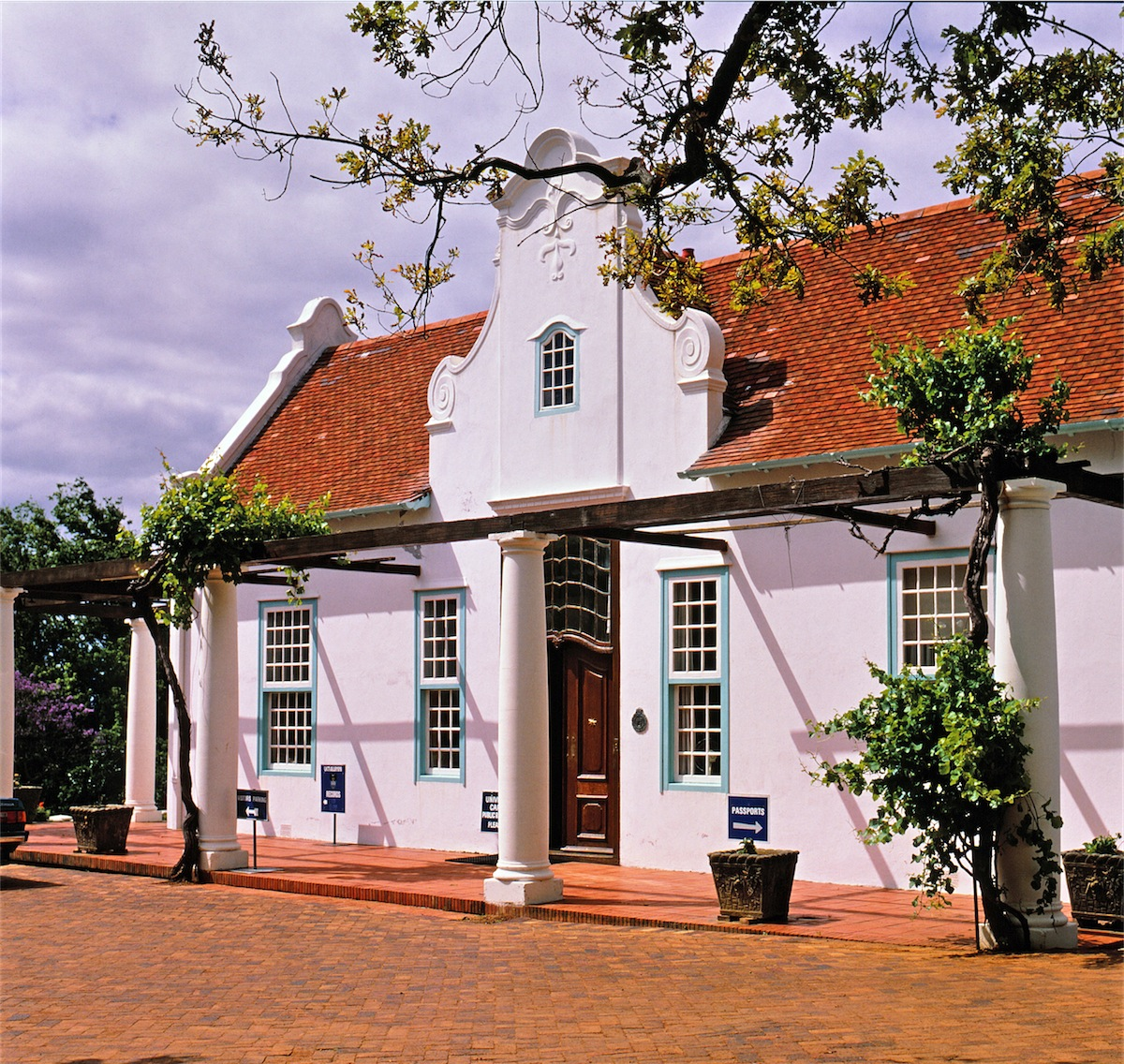 This media shows a South African Protected Site with SAHRA file reference 9/2/111/0064/002.